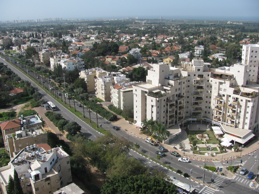 The western side of Ramat Hasharon with prominent red roofs against the towers